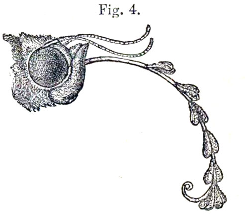 Figure 4 from the 1877 edition of Charles Darwin's Fertilisation of Orchids. Scanned from a copy of the work at the University of Massachusetts Amherst.